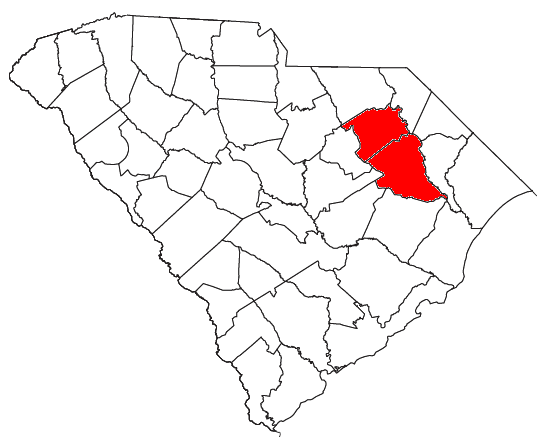 Locator map of the Florence Metropolitan Statistical Area in the northeastern part of the U.S. state of South Carolina.